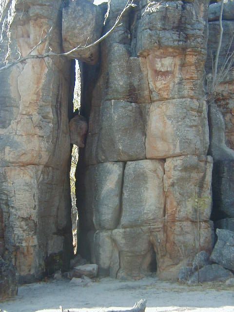 Photograph by Bill Bradley. billbeee 11:25, 10 May 2007 (UTC) Feel free to use it, just credit me as the photographer. You can contact me through my website my website